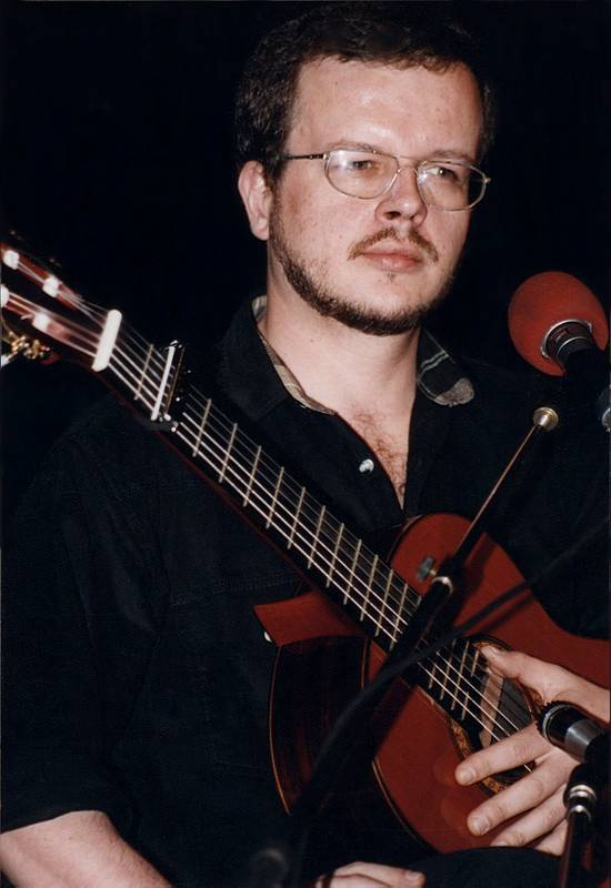 Photo of Jacek Kaczmarski, polish poet and singer, taken 7th November 1992 in Gdańsk during "Wojna postu z karnawałem" concert.